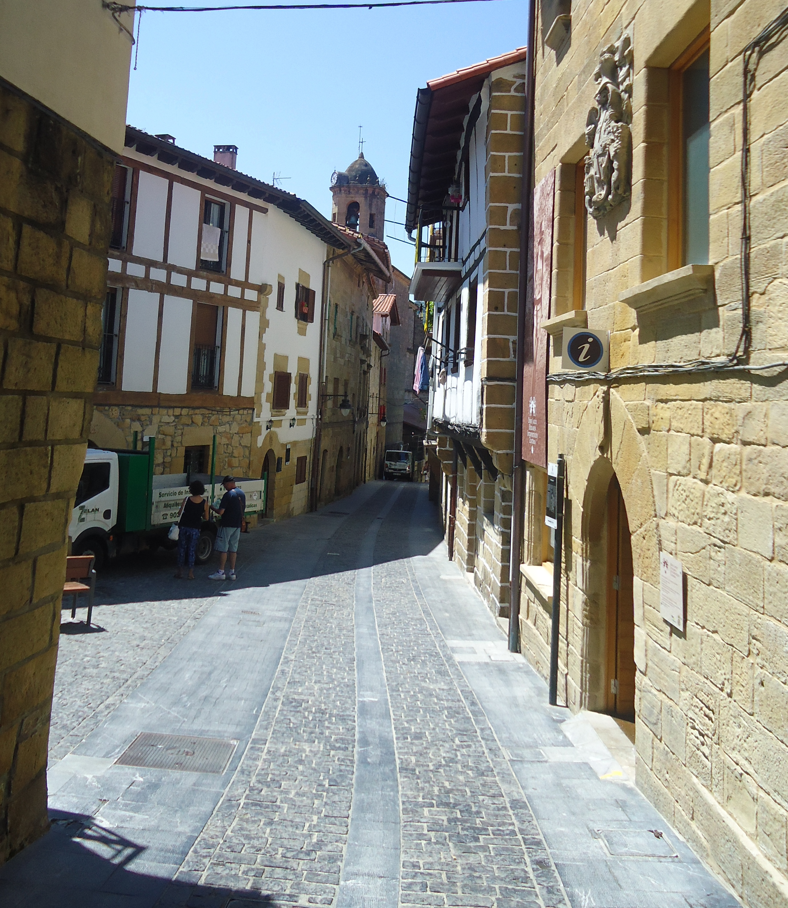 Main street of Orio (Gipuzkoa, Basque Country)